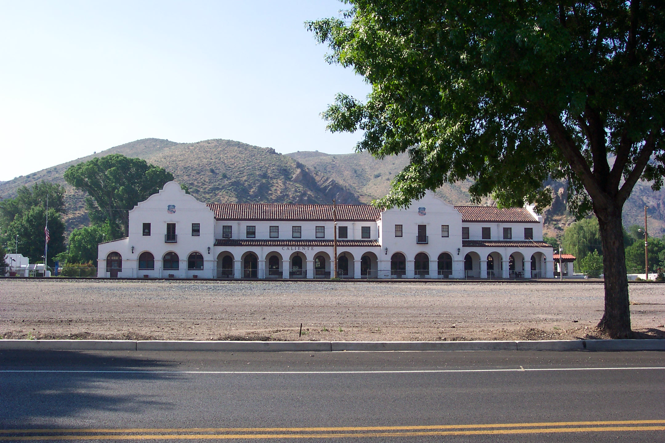 The Caliente Railroad Depot — in Caliente, southern Nevada. The 1923 Mission Revival style train station and railway hotel was designed by John and Donald Parkinson for the Los Angeles and Salt Lake Railroad. On the National Register of Historic Places in Lincoln County.